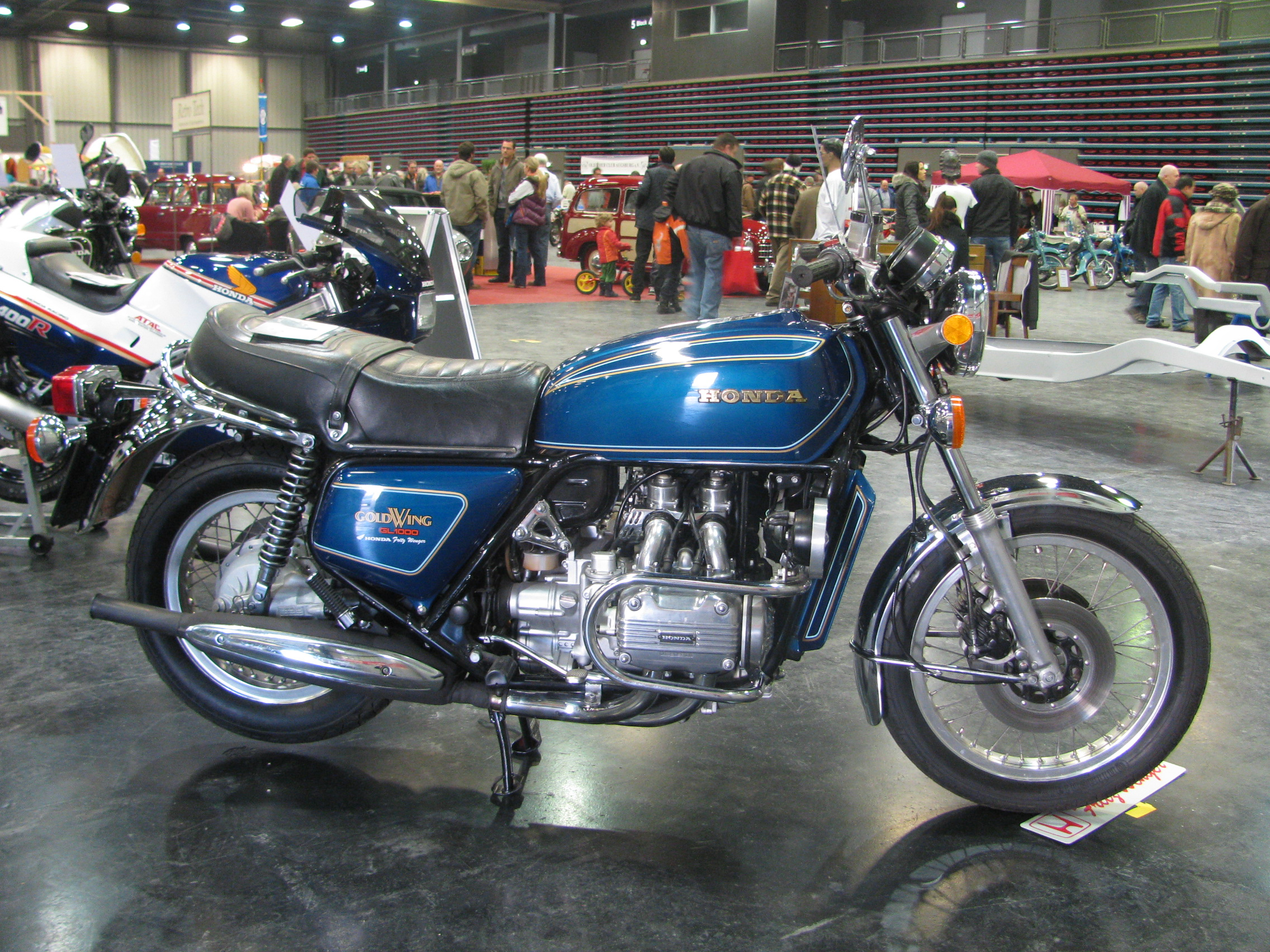 Honda Gl1000 Gold Wing from 1977. 987 cm³, 60 kW (82 hp). MotoTechnica Augsburg 2012.